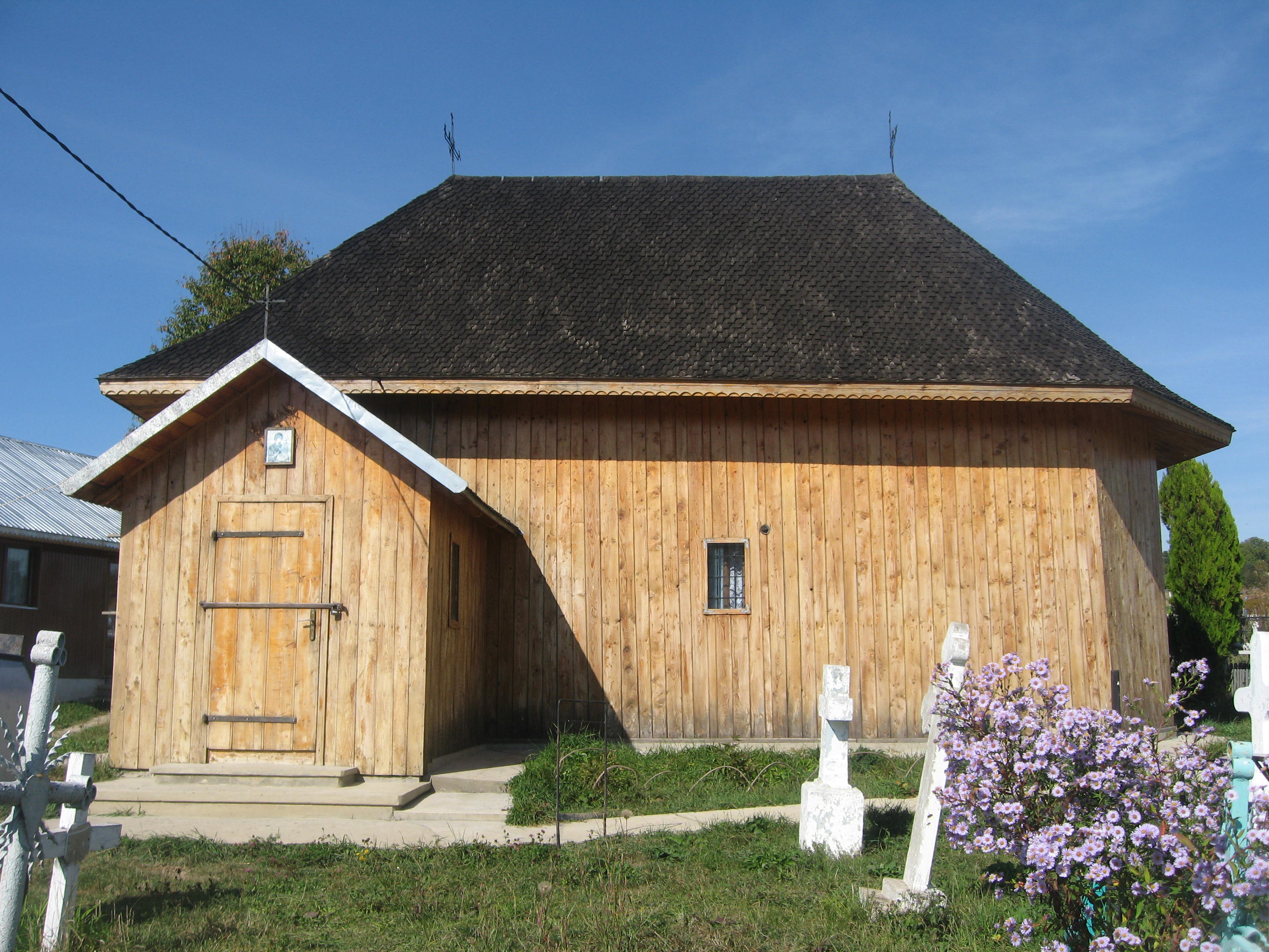 Biserica de lemn Adormirea Maicii Domnului din Mădârjac